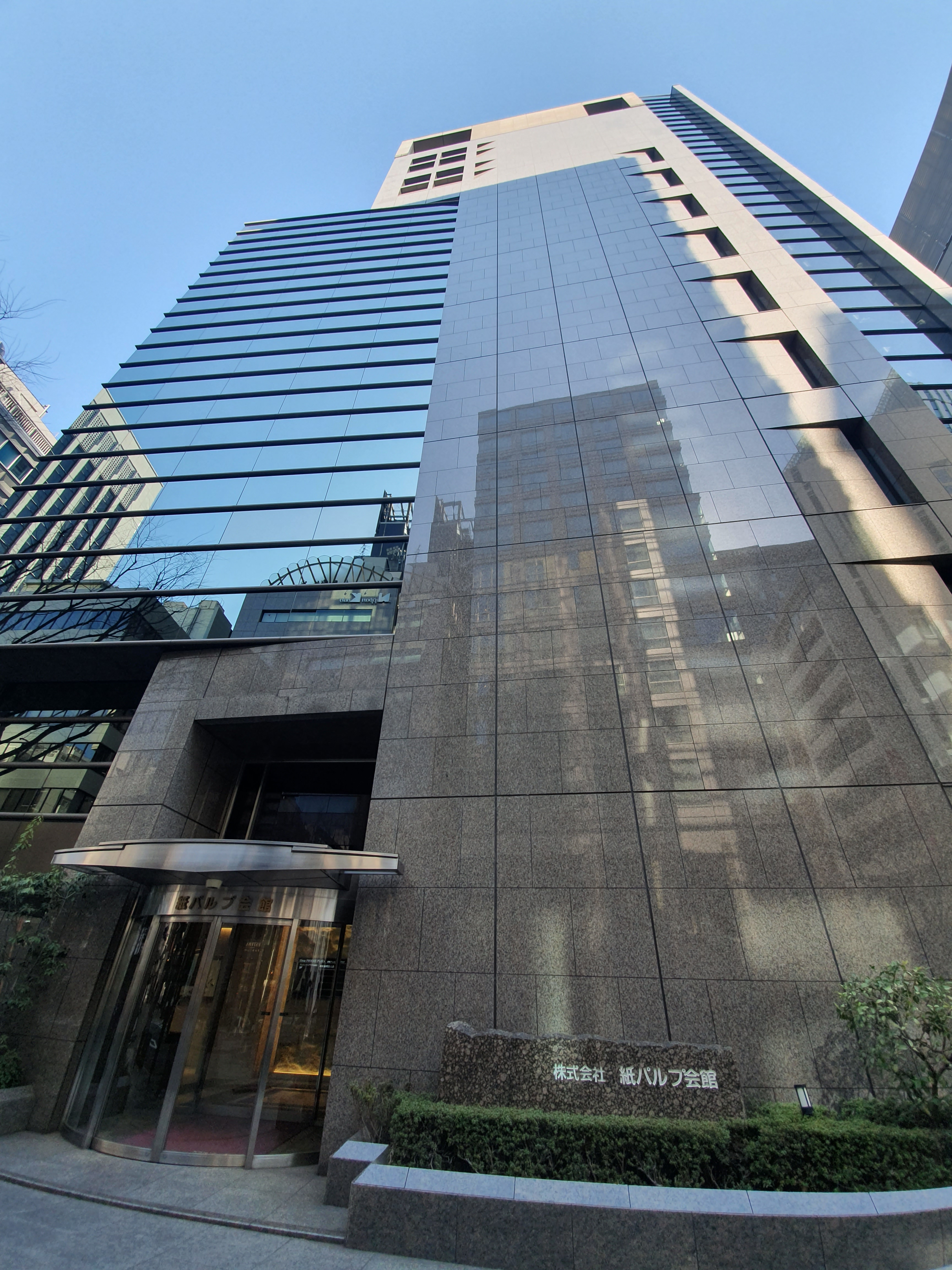 organization